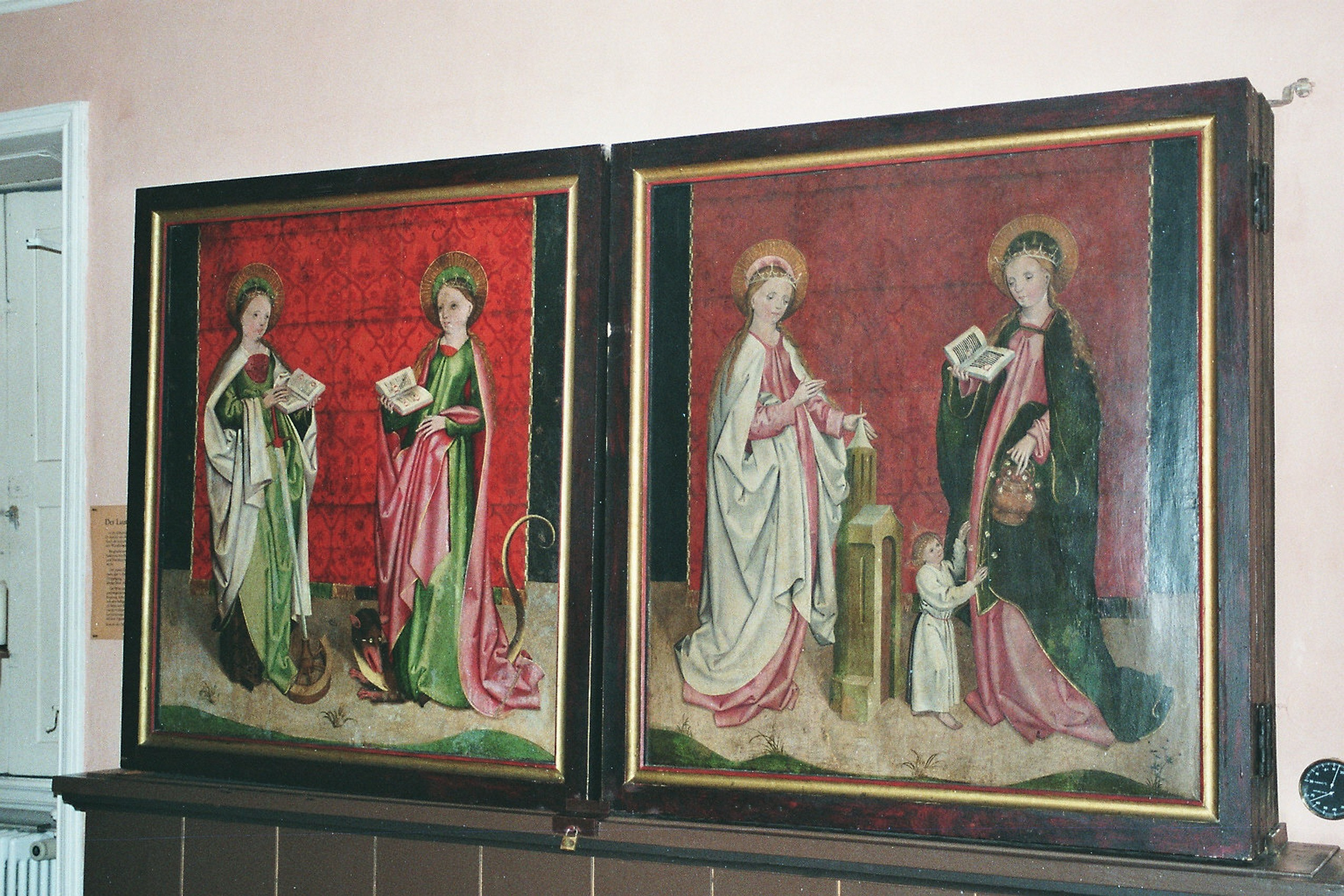 Lauterbach (Hesse), the museum Hohhaus palace, Mary´s altar